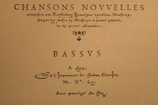 Title page of Barthélémy Beaulaigue's Chansons nouvelles (Lyon, Robert Granjon, 1559).